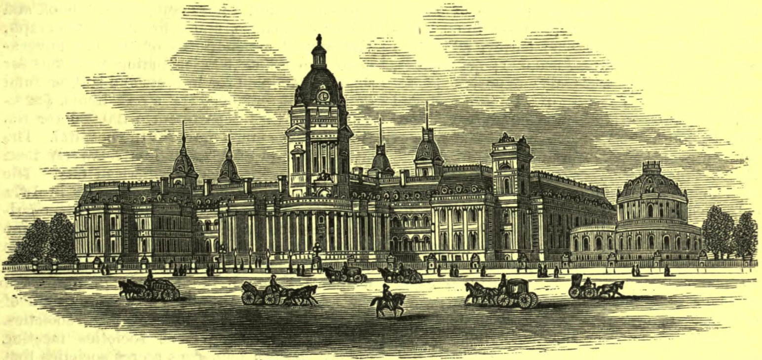 Drawing/engraving of the “new” city hall of San Francisco, California.